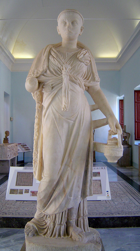 Priestess of the Egyptian goddess Isis, holding a situla (a bronze jug). Roman statue of the 2nd century AD, on display at the Museo Archaeologico Regionale, Palermo, Sicily.